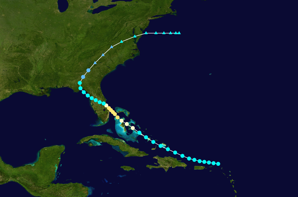 1928 Atlantic hurricane 1 track.png track. Uses the color scheme from the Saffir-Simpson Hurricane Scale.